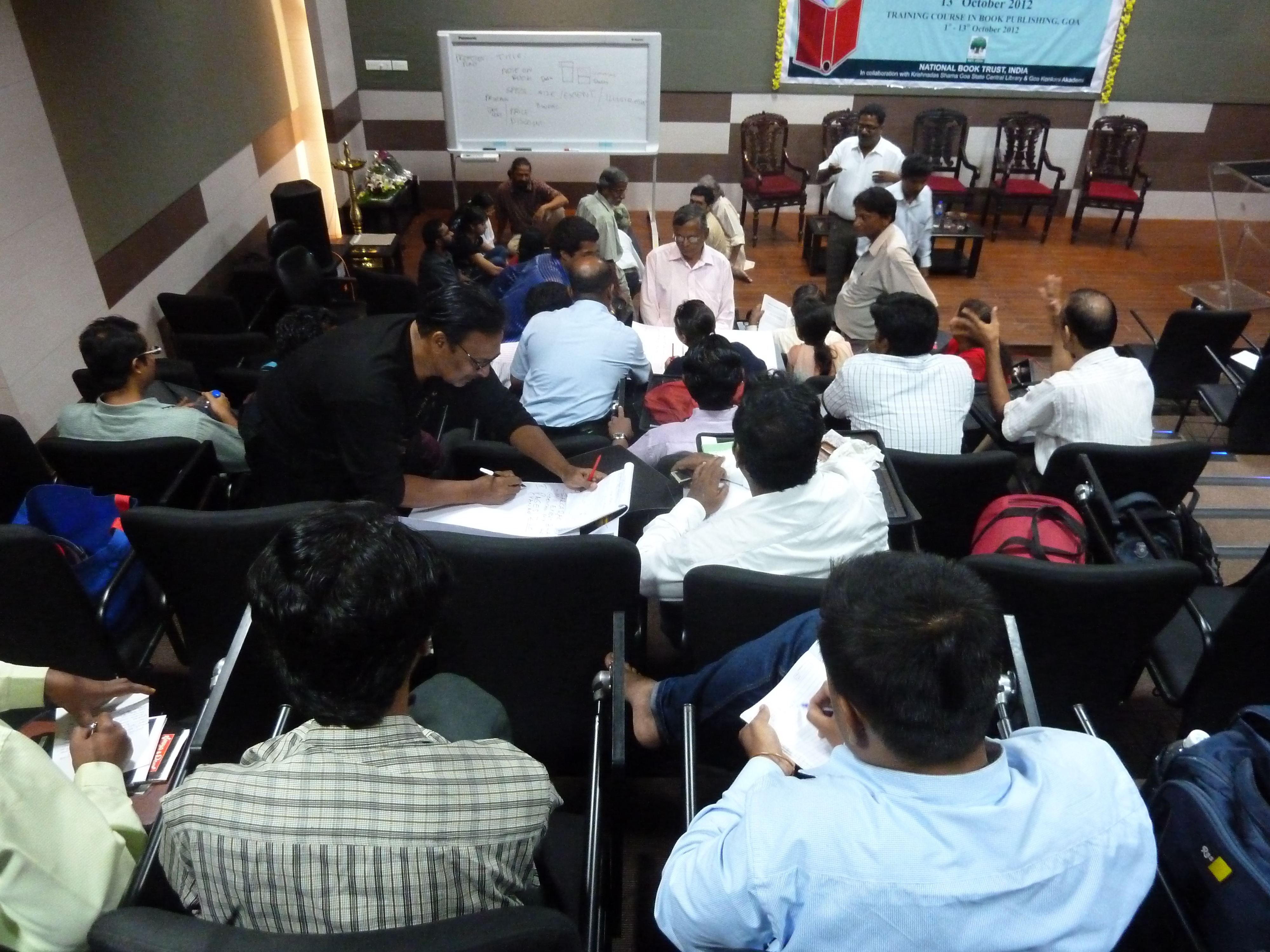 Participants undergo a publishing course at the library's auditorium.